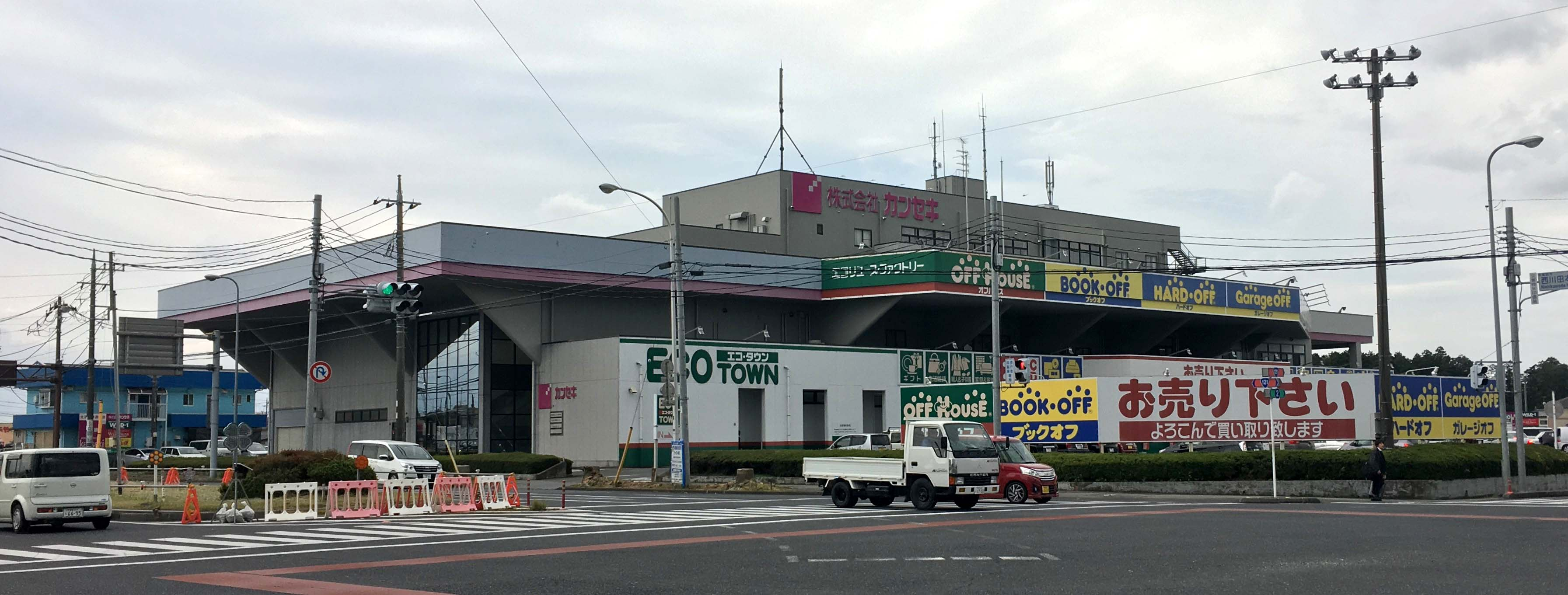 Kanseki (Japanese DIY store chain) headquarters (Utsunomiya, Japan)